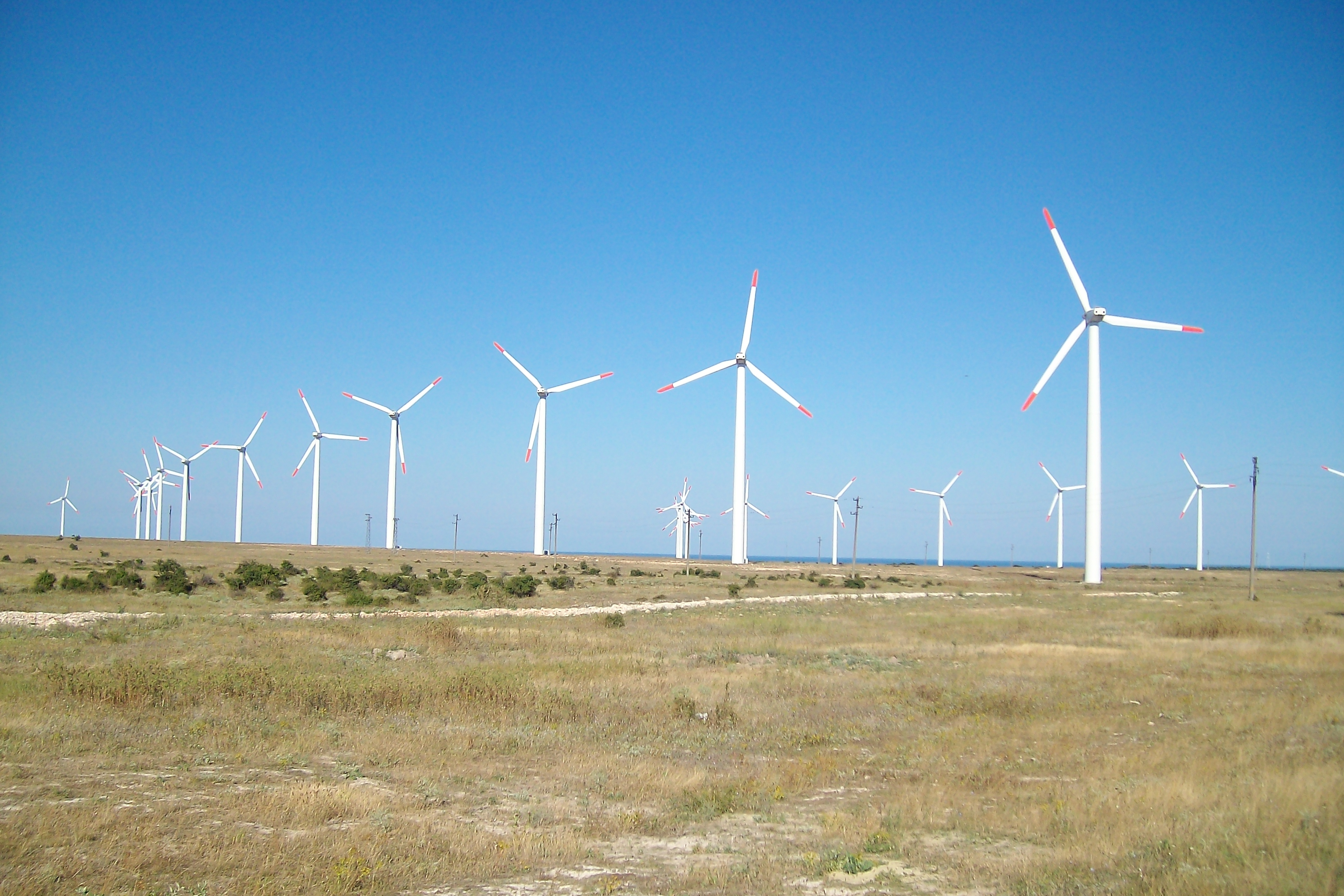 Wind park near cape Kaliakra, Bulgaria